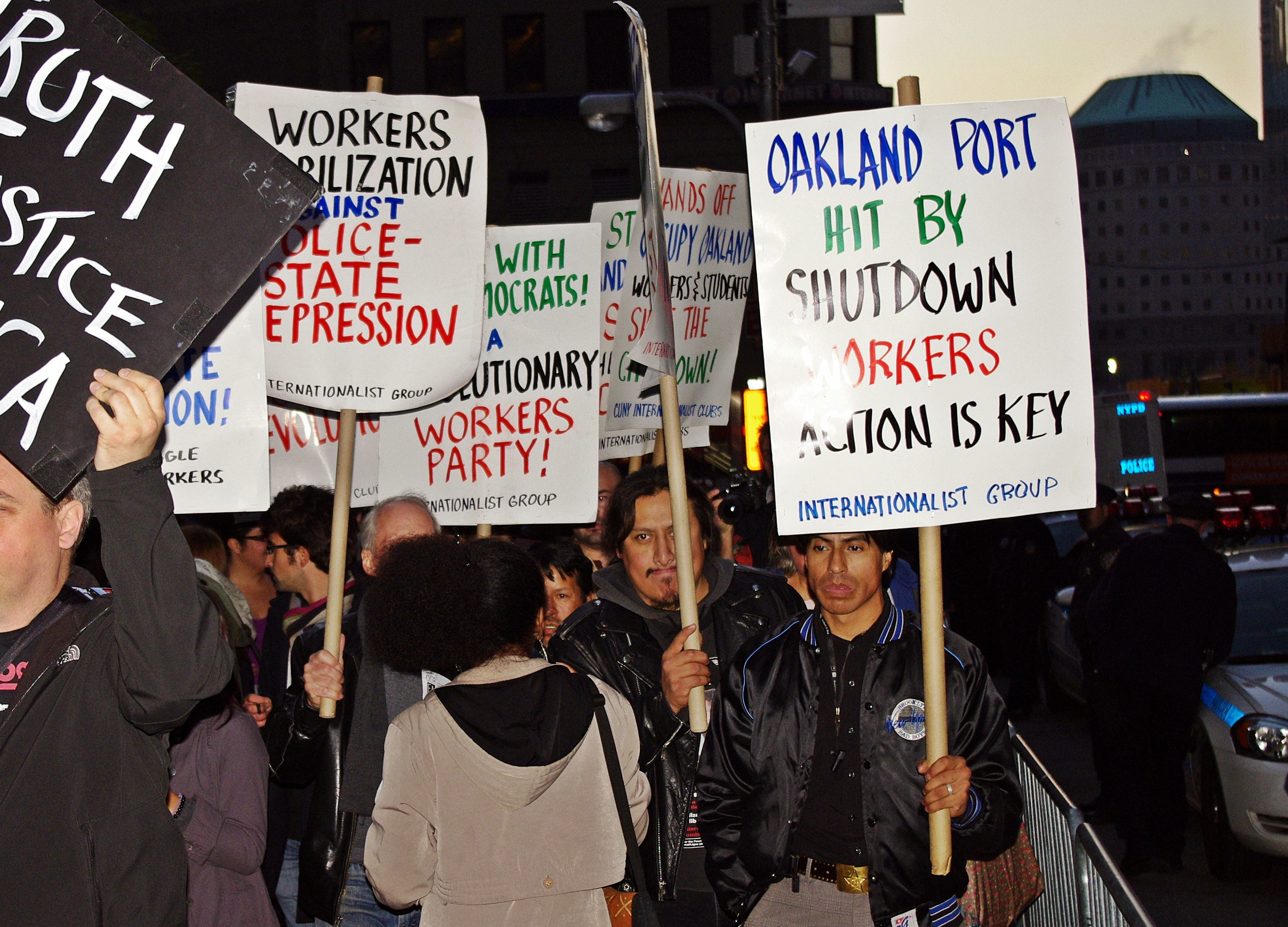 Photos from Zuccotti Park on Wednesday, November 2, Day 47 of Occupy Wall Street.